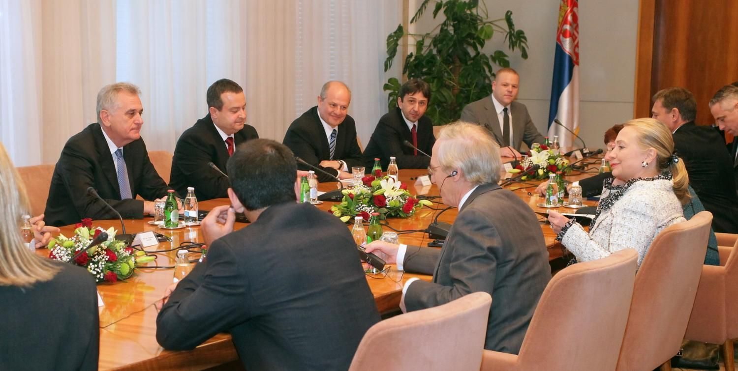 U.S. Secretary of State Hillary Rodham Clinton, EU High Representative Ashton, and U.S. Ambassador to Serbia Michael Kirby meet with Serbian President Tomislav Nikolić and Serbian Prime Minister Ivica Dačić at the Palace of Serbia in Belgrade, Serbia, October 30, 2012. [FoNet photo]